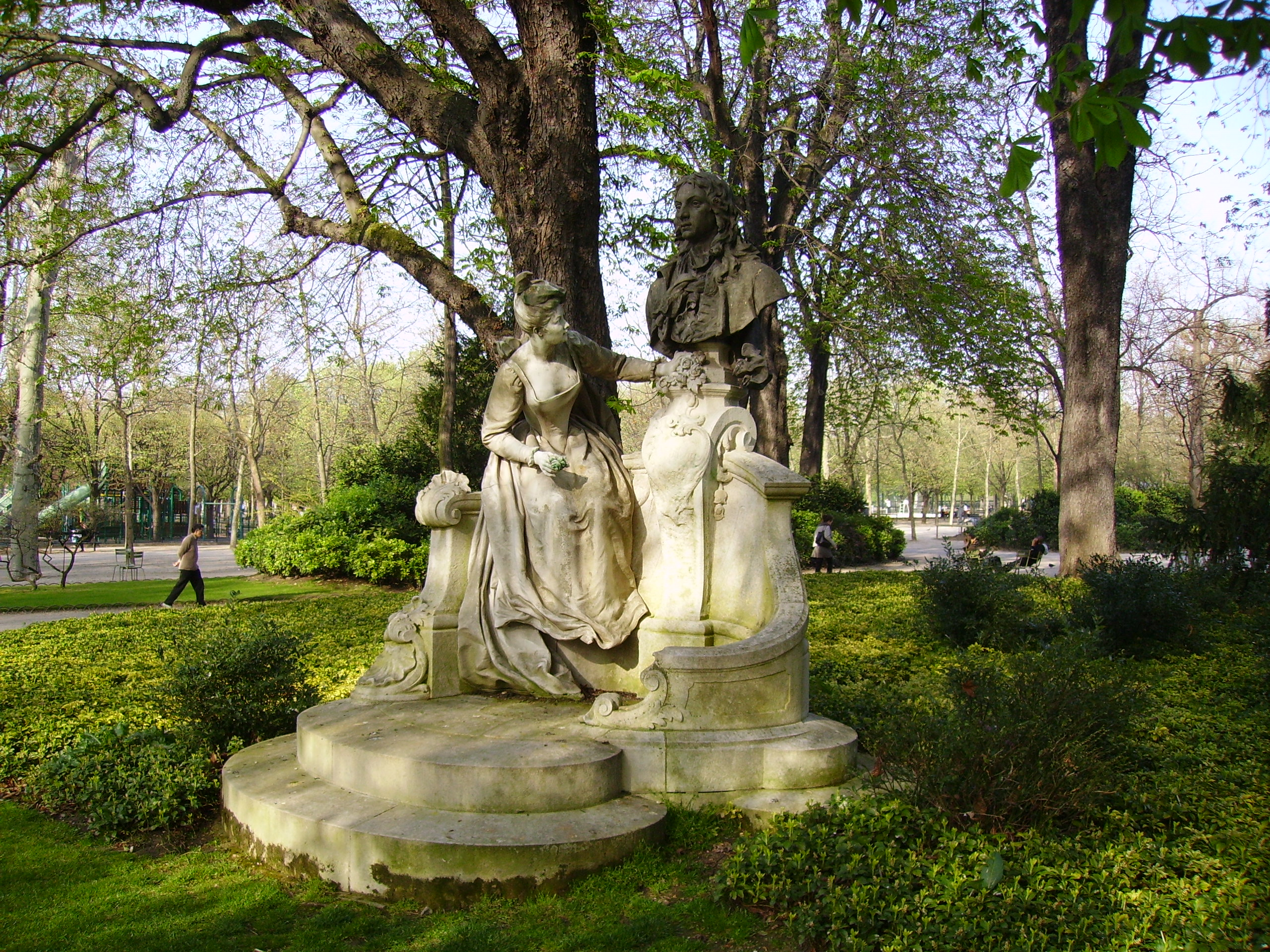 Henri Désiré Gauquié (French, 1856-1943): Monument to Jean-Antoine Watteau (1896), comprising a metal bust representing the painter Antoine Watteau and a marble, feminine figure representing Youth, Paris, Luxembourg Gardens.